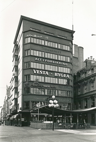 The "high-rise" Horngården (Karl Johans gate 21) is an iconic landmark from early modernist architcture. The canopy in front provoked a heated debate with conservation authorities. The owner of the ground floor store sued the city and won, and the caopy was demolished.